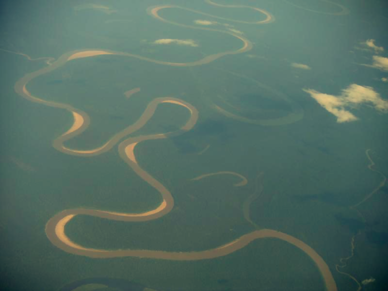 The Amazon Rainforest (and Amazon River? I'm not 100% sure) taken from plane.